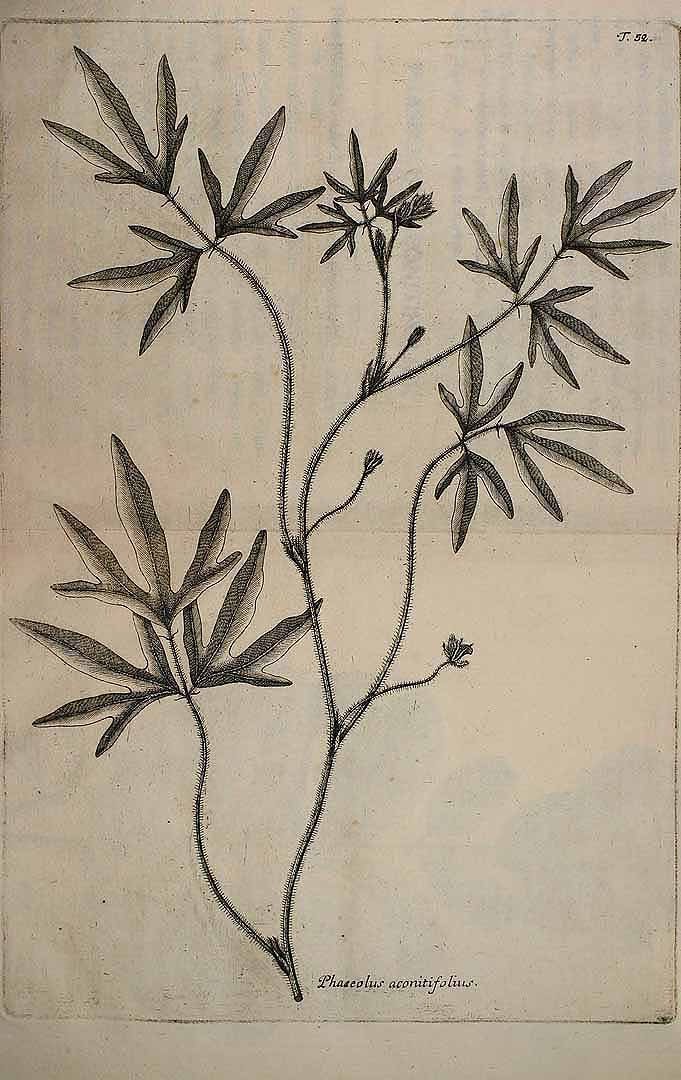 [as Phaseolus aconitifolius Jacq.]